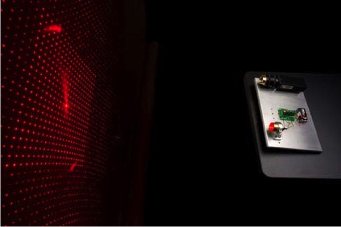 Breadboard of a hazard avoidance sensor using structured light developed at the Jet Propulsion Laboratory.